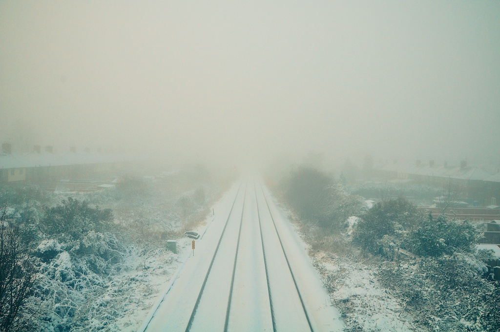 Overlooking Goole, East Riding of Yorkshire, England. On Kingsway Bridge during recent snowfall.